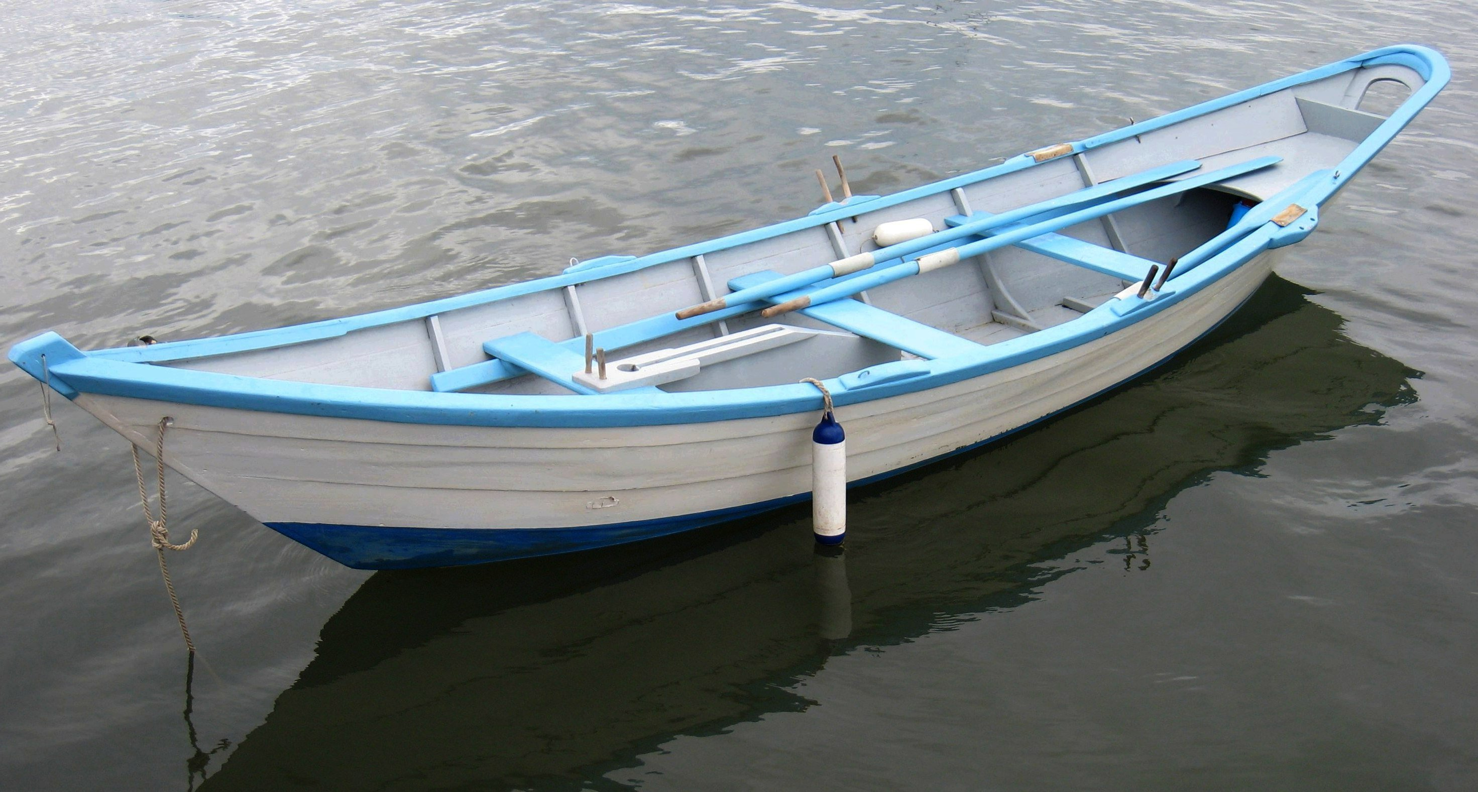 Doris (Boat)